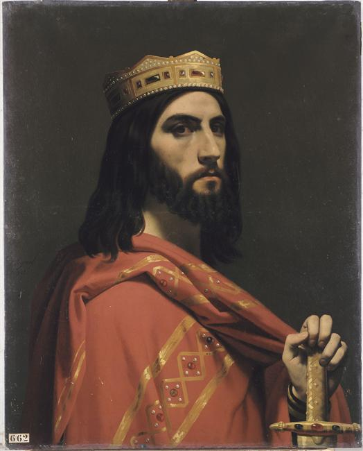 Portraits of Kings of France is a serie of portraits commissioned between 1837 and 1838 by Louis Philippe I and painted by various artists for the Musée historique de Versailles.